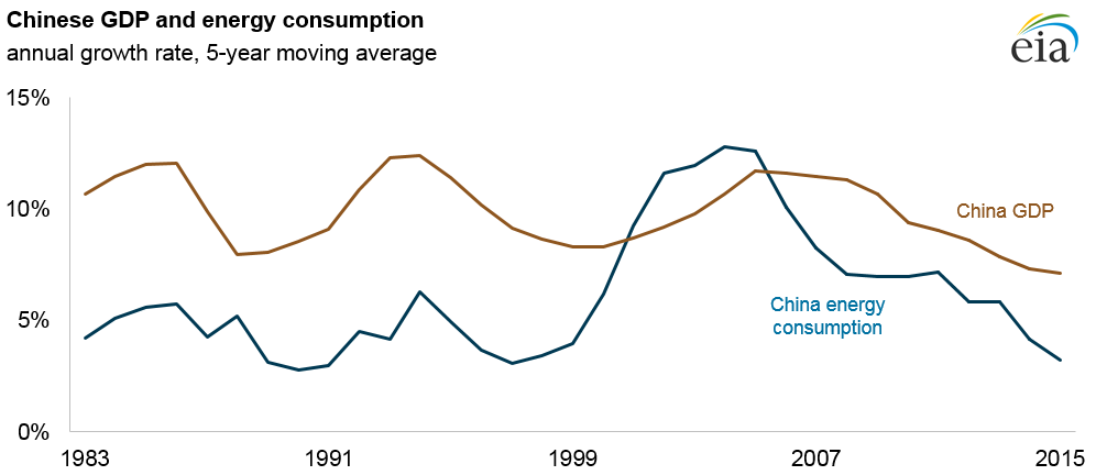 China’s GDP and energy consumption growth have slowed in recent years and the slower growth in energy consumption is consistent with stated policy goals.